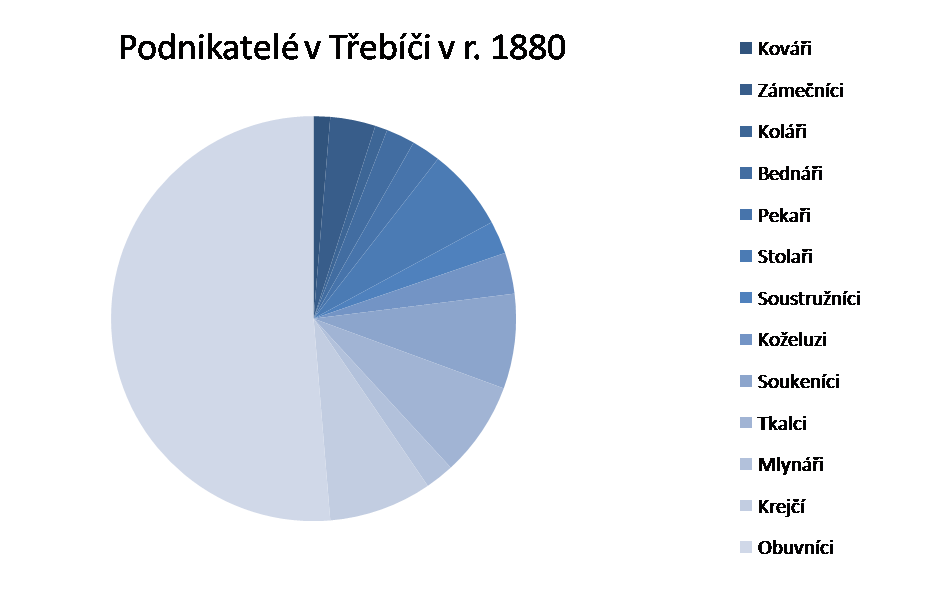 Membership of entrepreneurs in Třebíč in 1880 - chart